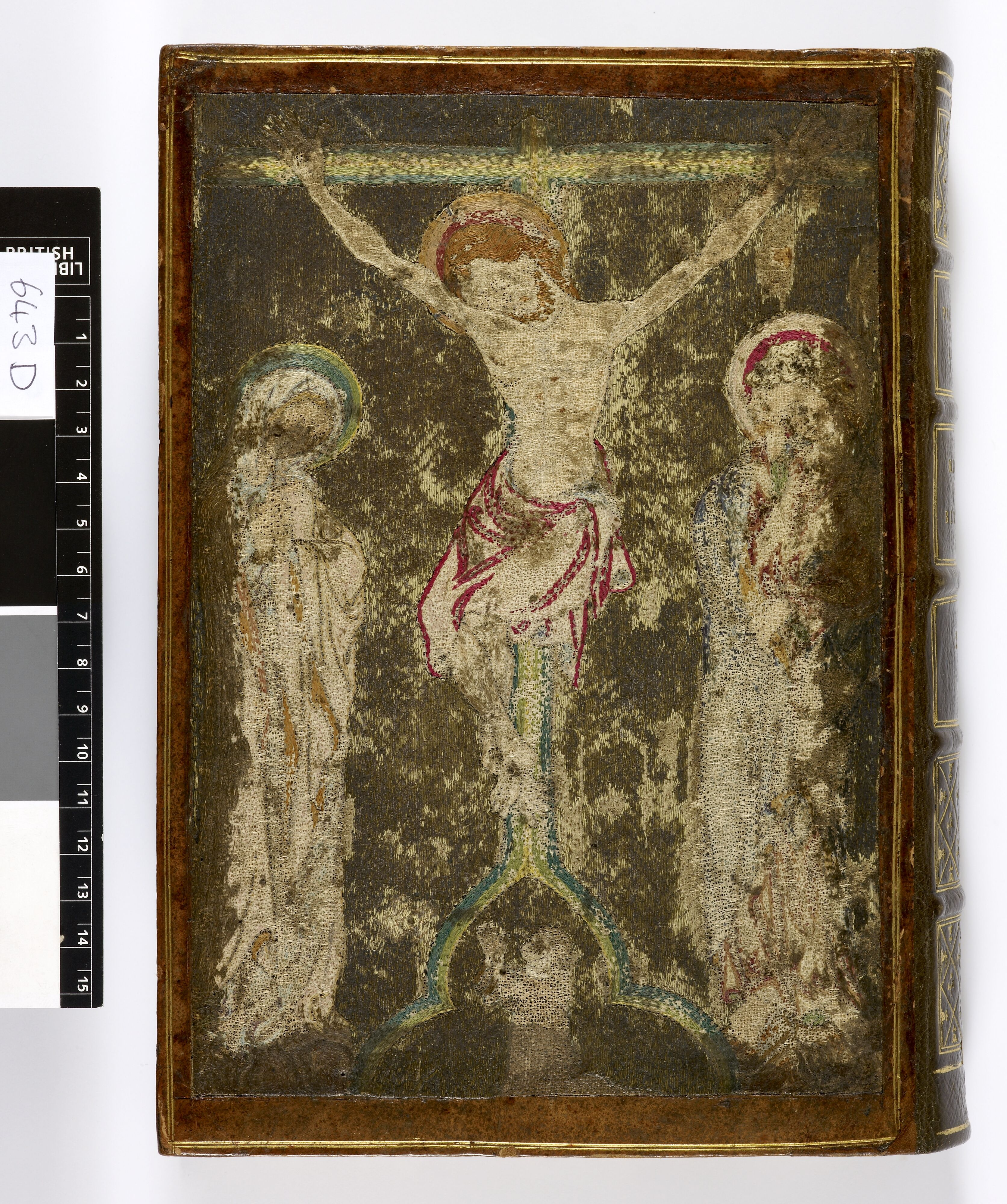 Style: Religious miscellaneous; Caption: Lower cover; Colour: Unspecified; Edge: Unspecified